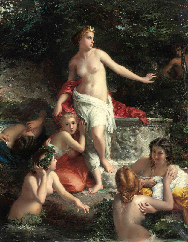 Diana and her maidens